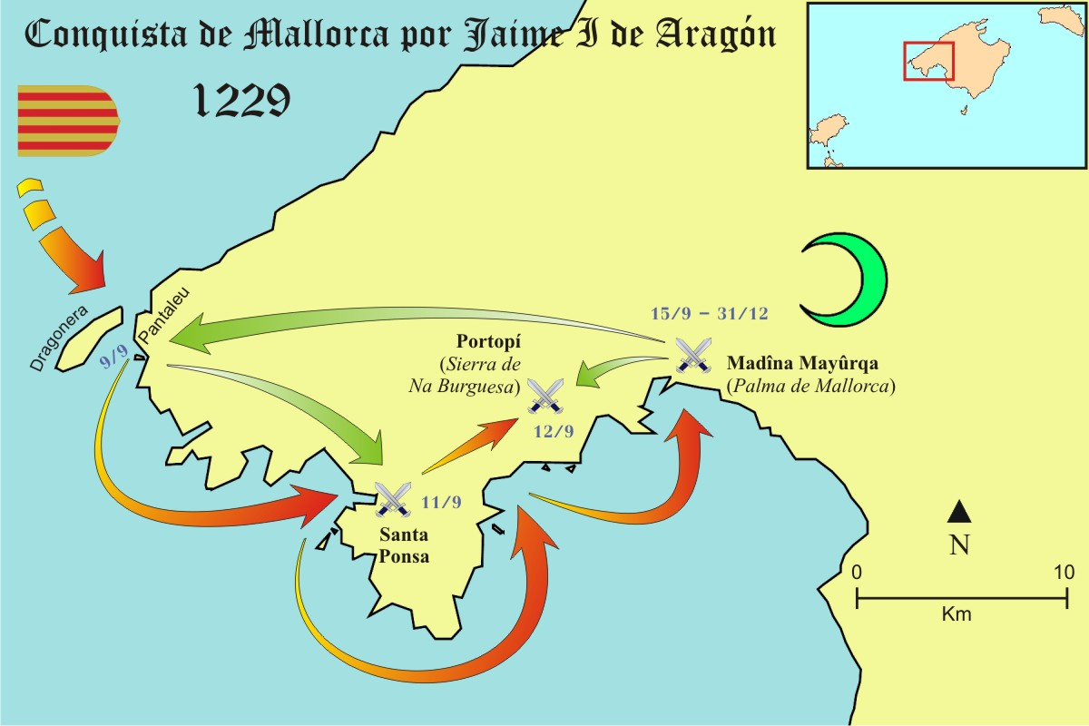 Conquest of Mallorca by James I of Aragon (1229).